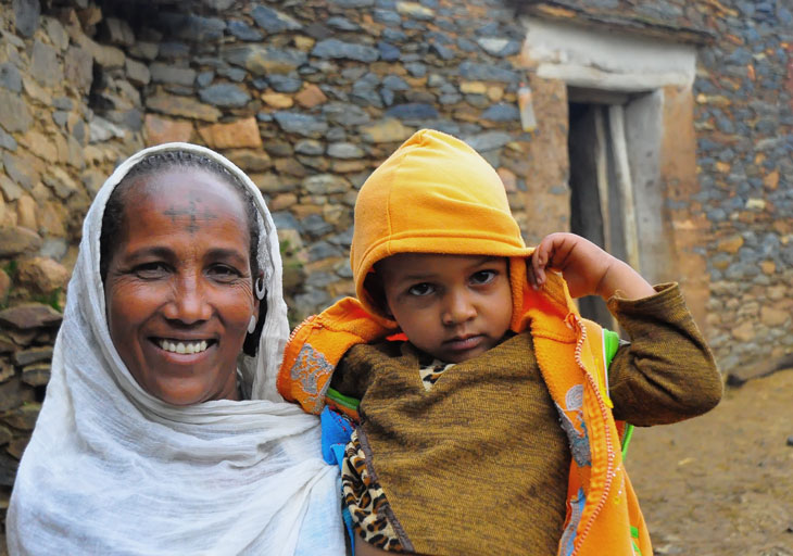 Orthodox, Tigray